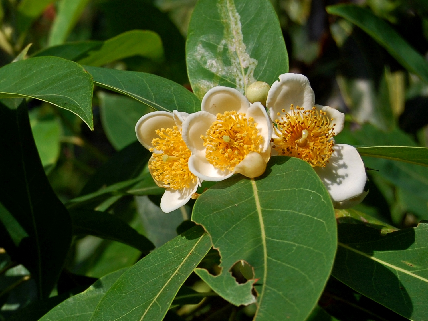 Schima wallichii, flowers close-up. From Bogor, West Java, Indonesia.